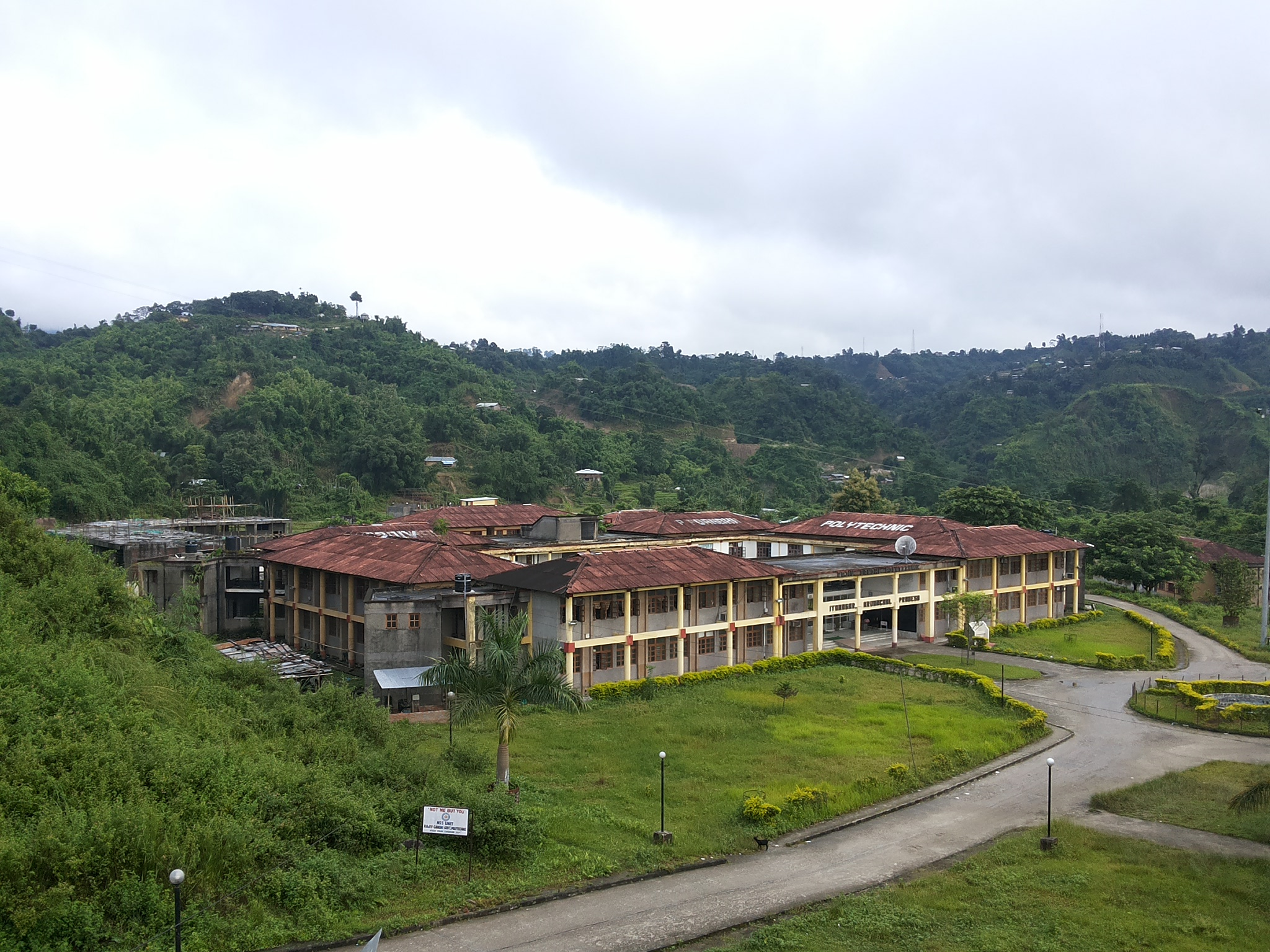 View of RGGP